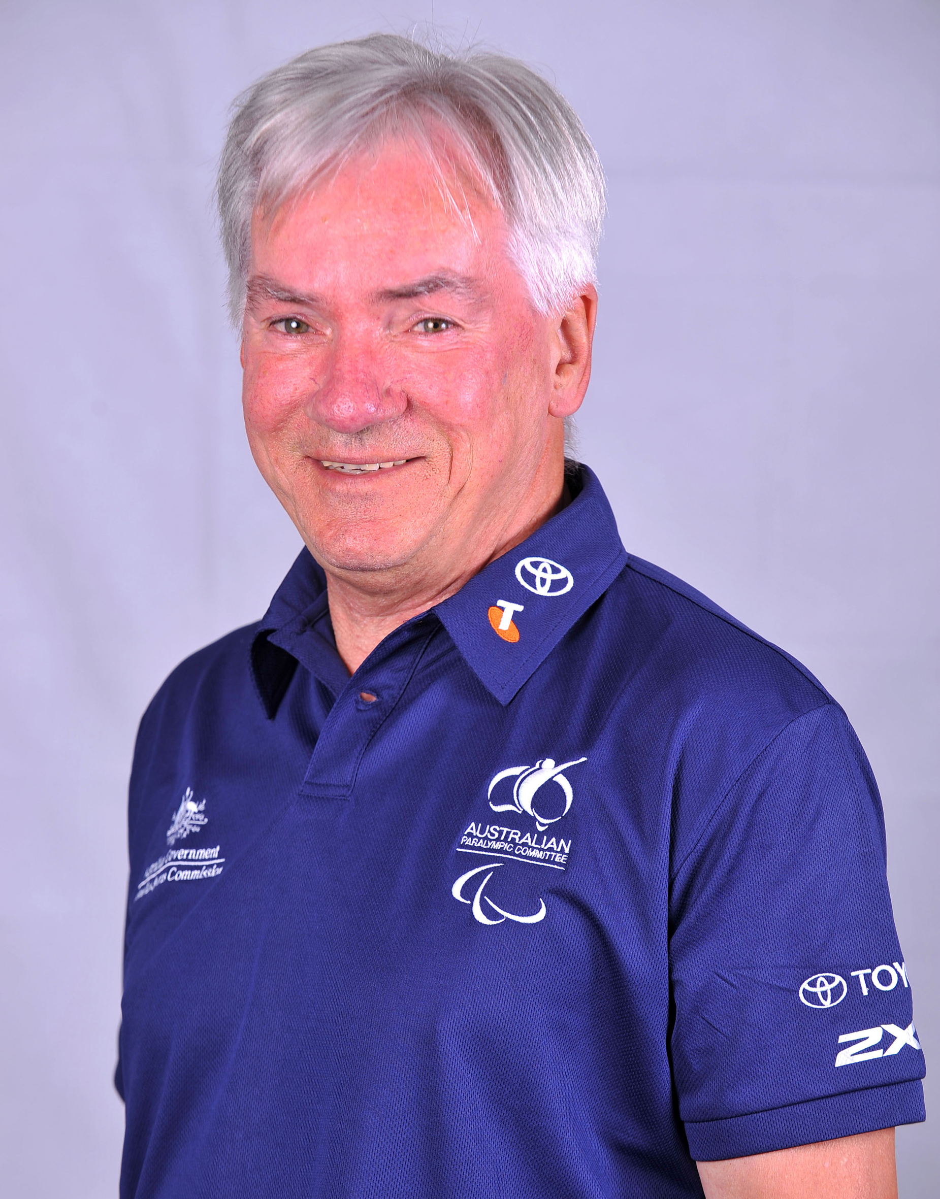 Portrait of Australian shooting coach Miro Sipek, 2012 Australian Paralympic (shadow) Team